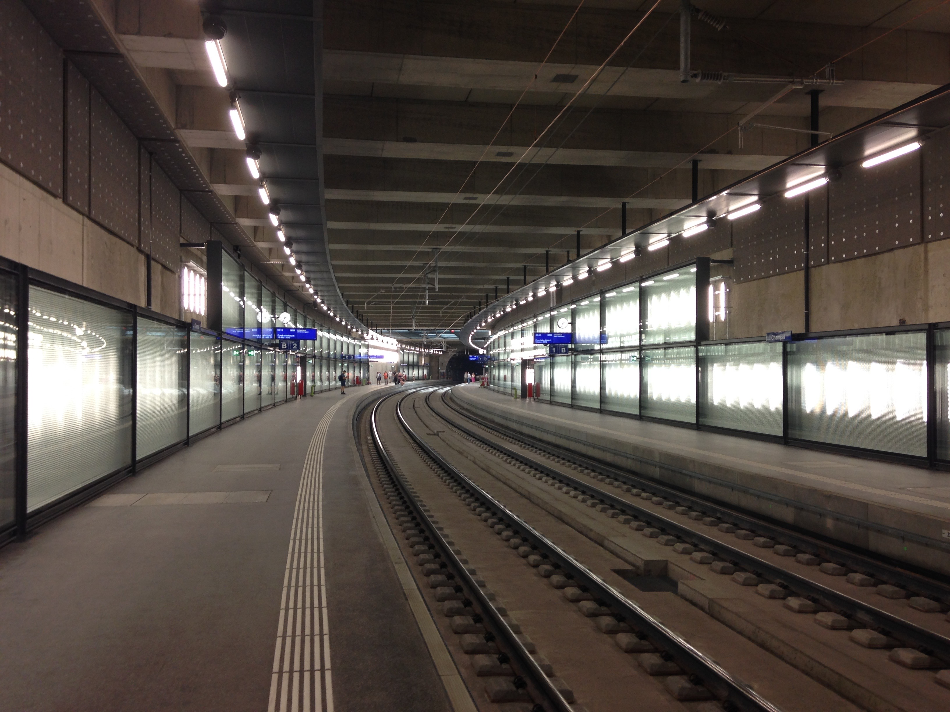 Open Days (June 29th and 30th 2019) related to CEVA work at Champel-Hôpital location